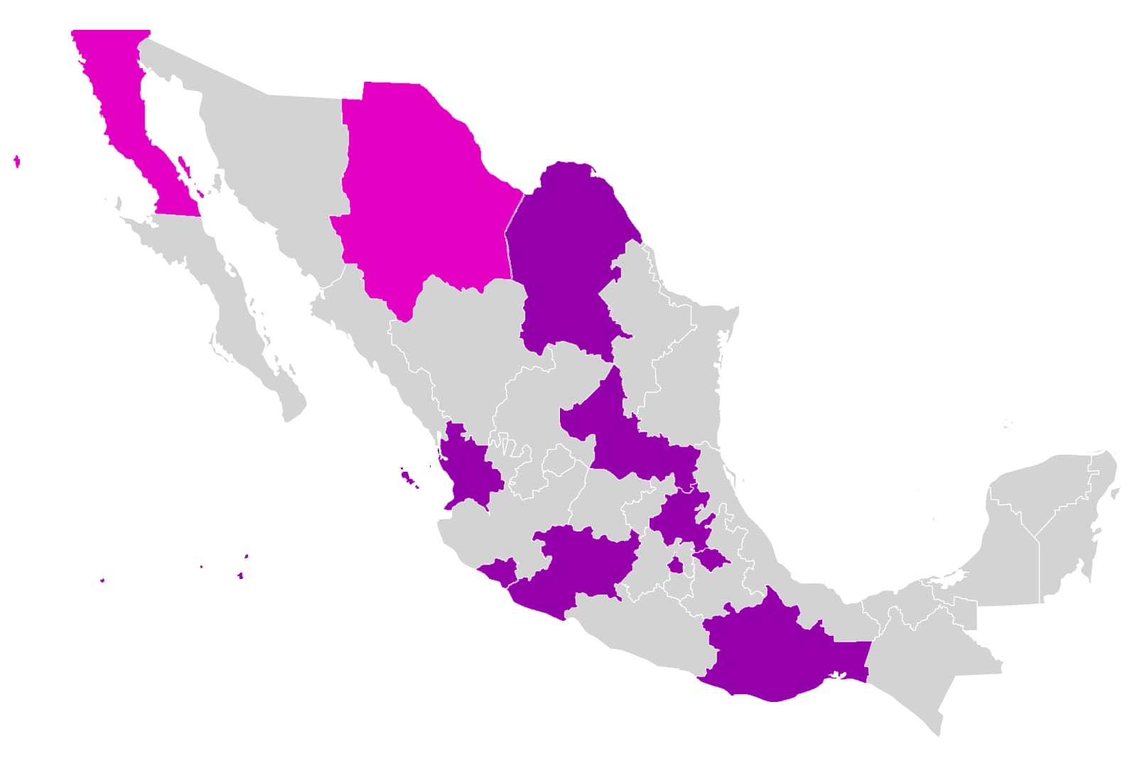 Mexico Transgender Rights